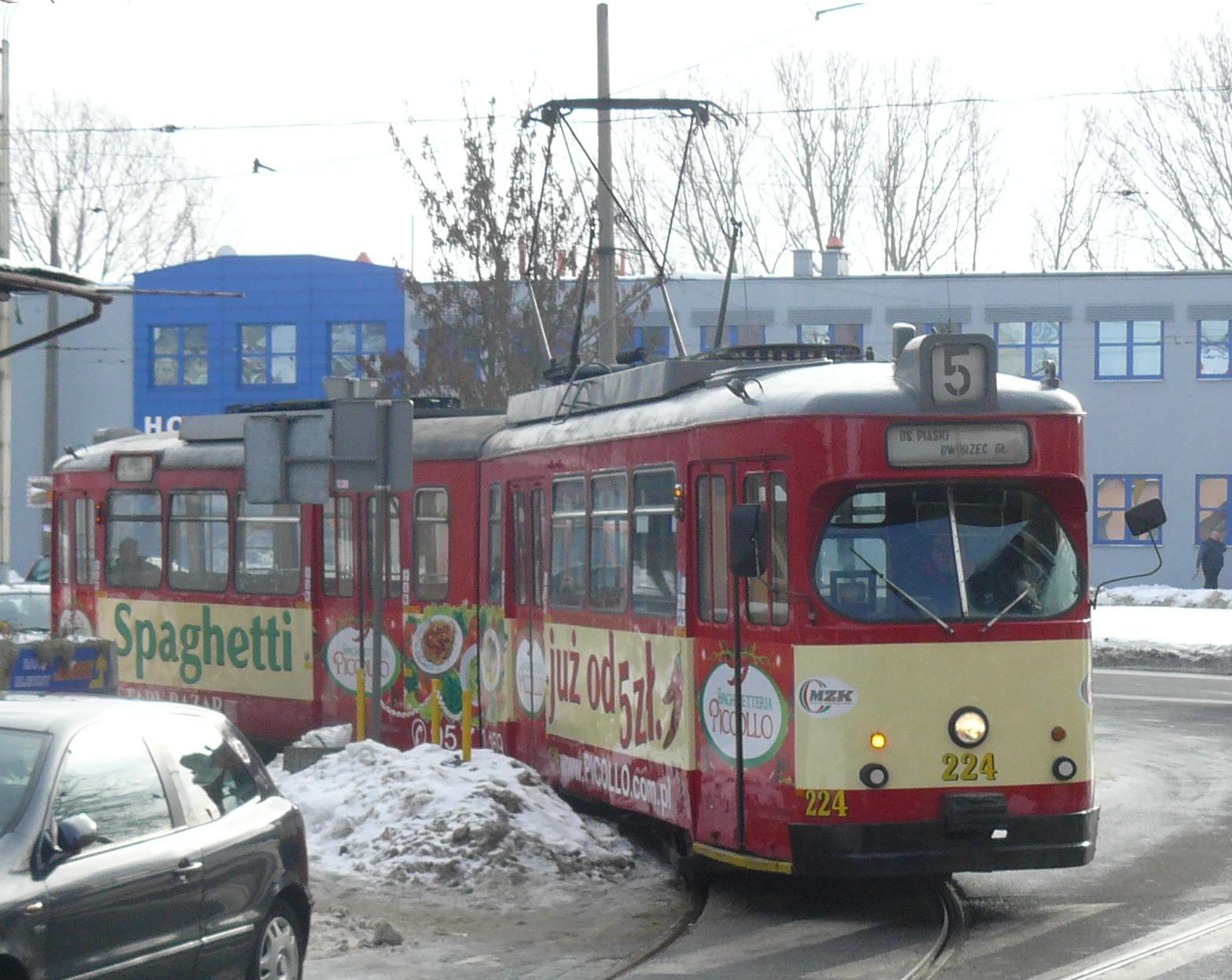 Tram